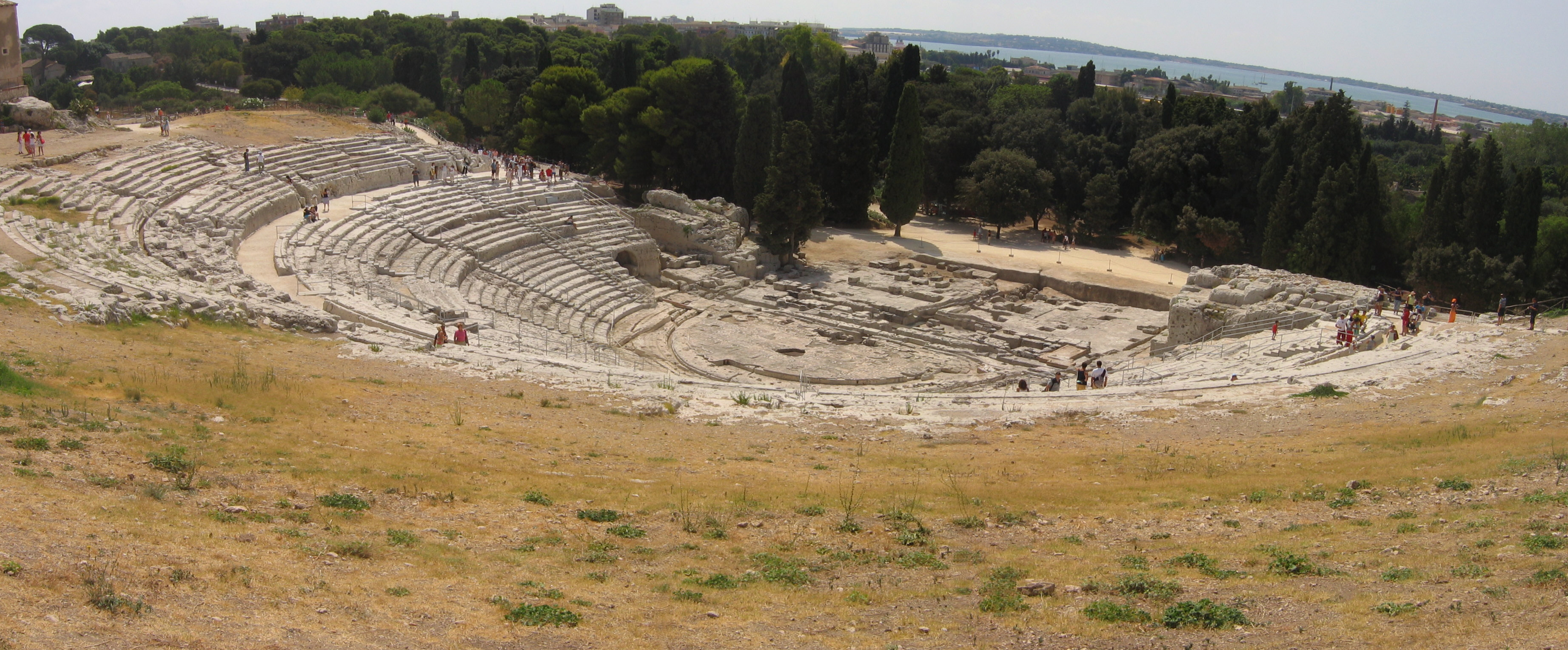 The Greek theatre in Syracuse, Sicily, Italy. Author: Urban Body: Canon Powershot A80 Date: August, 2005